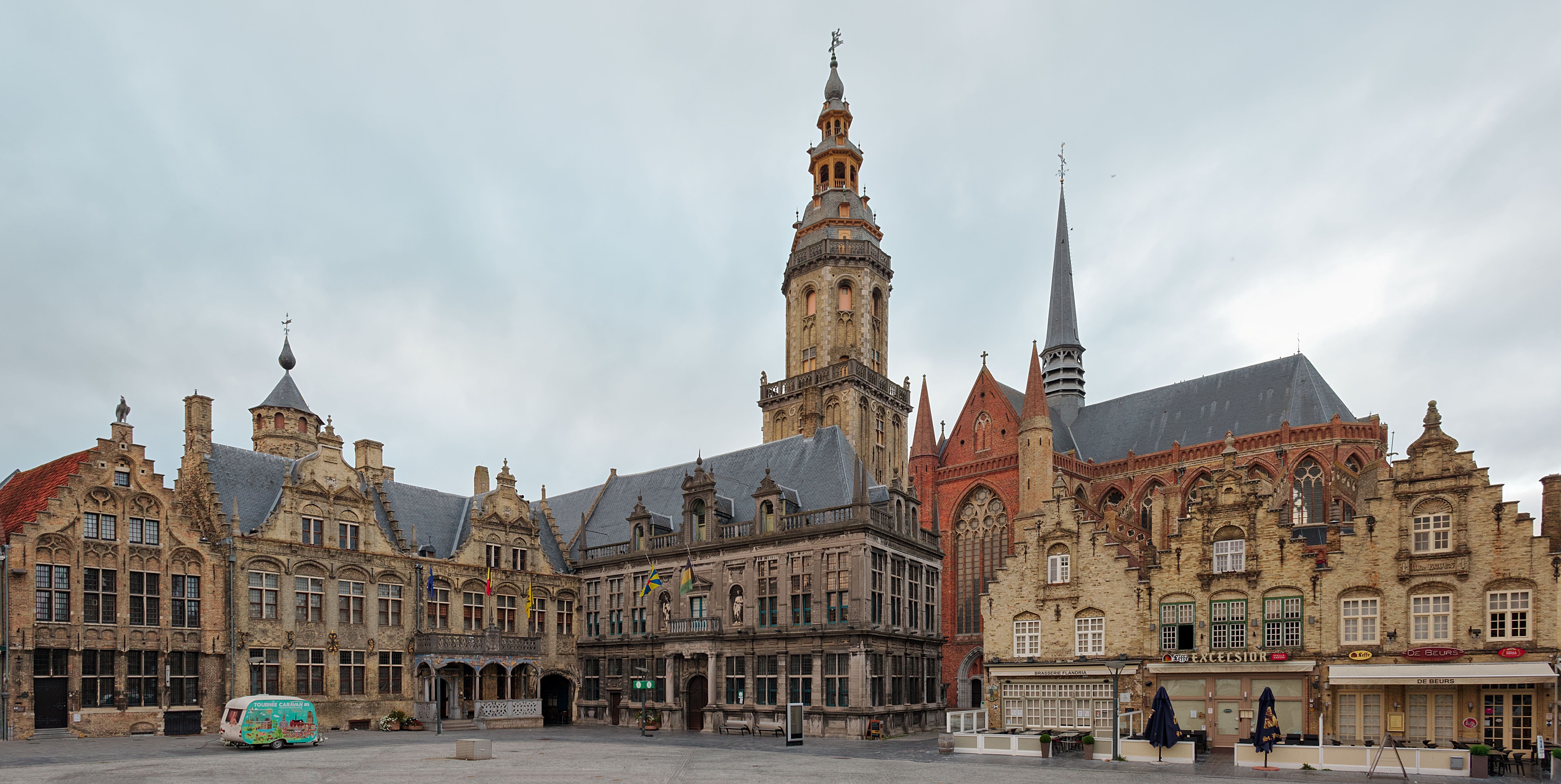 Veurne market square with the belfry and town hall (center-left) and Sint-Walburgakerk (right in the background) This photo of immovable heritage has been taken in the Flemish Region This place is a UNESCO World Heritage Site, listed as Belfries of Belgium and France.